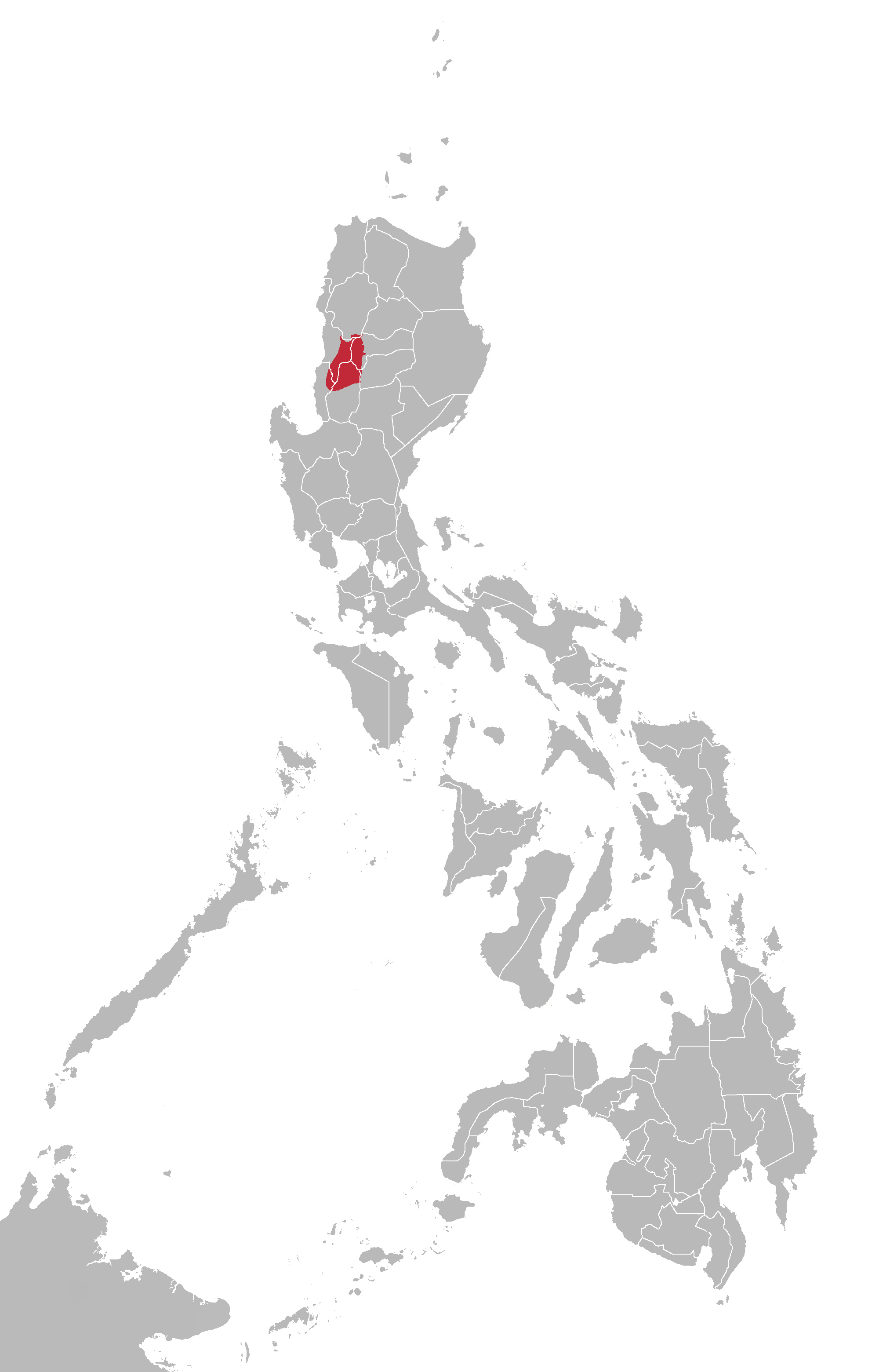 Kankanaey (including Northern Kankanaey) language map based on Ethnologue maps